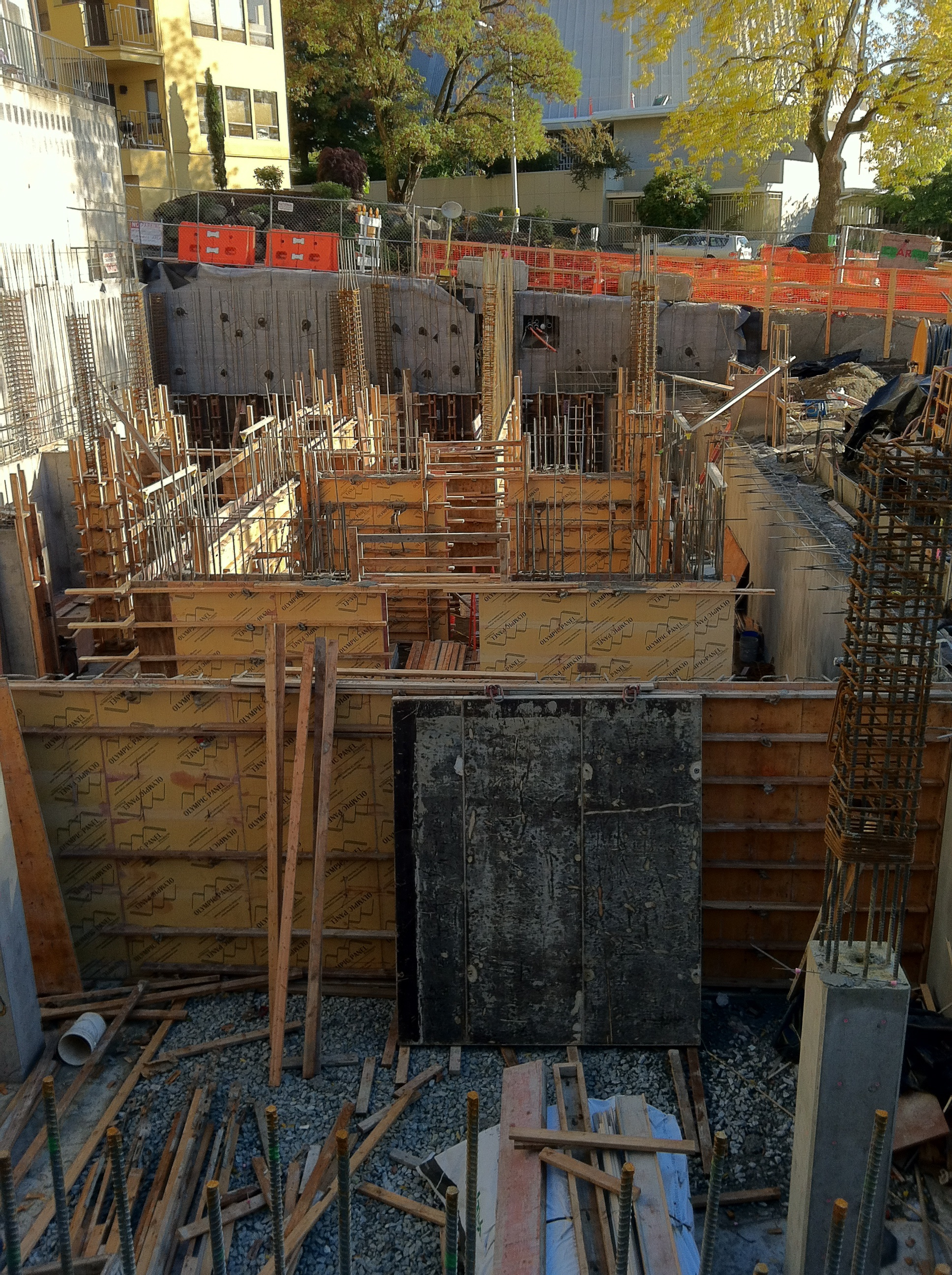 Bullitt Center under construction, taken on October 25, 2011.